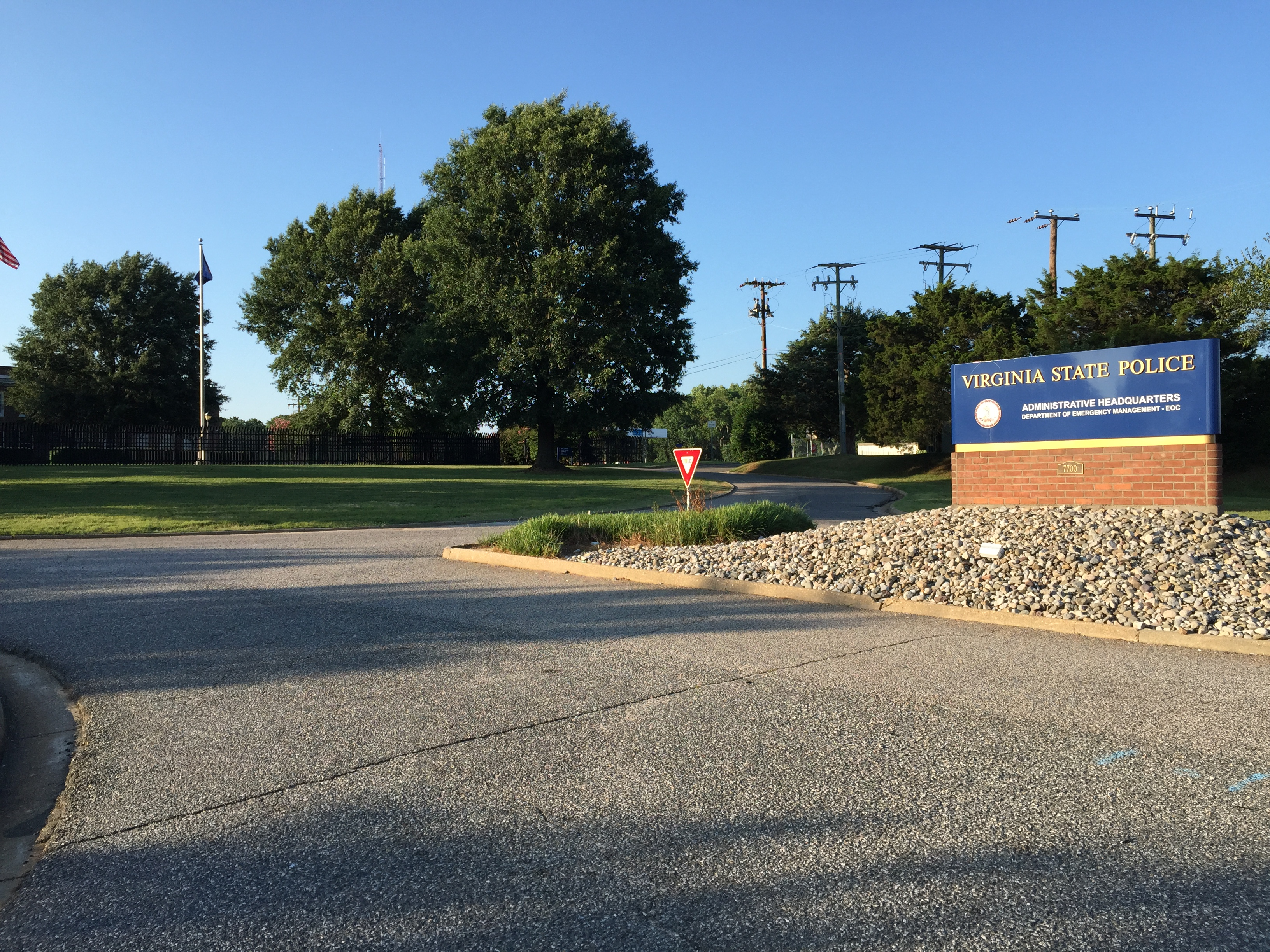 View north along Virginia State Route 339 at U.S. Route 60 (Midlothian Turnpike) at the entrance into the Virginia State Police Headquarters in Manchester, Chesterfield County, Virginia